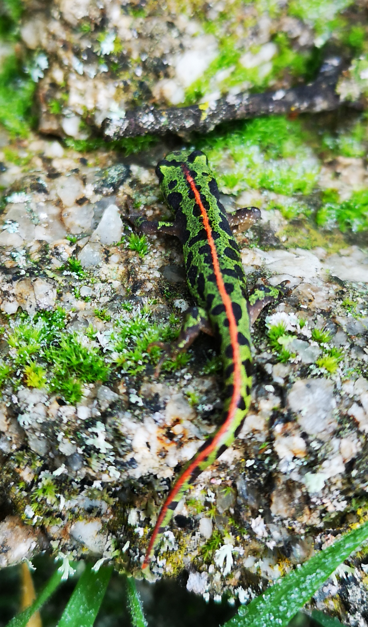 Reptil autóctono